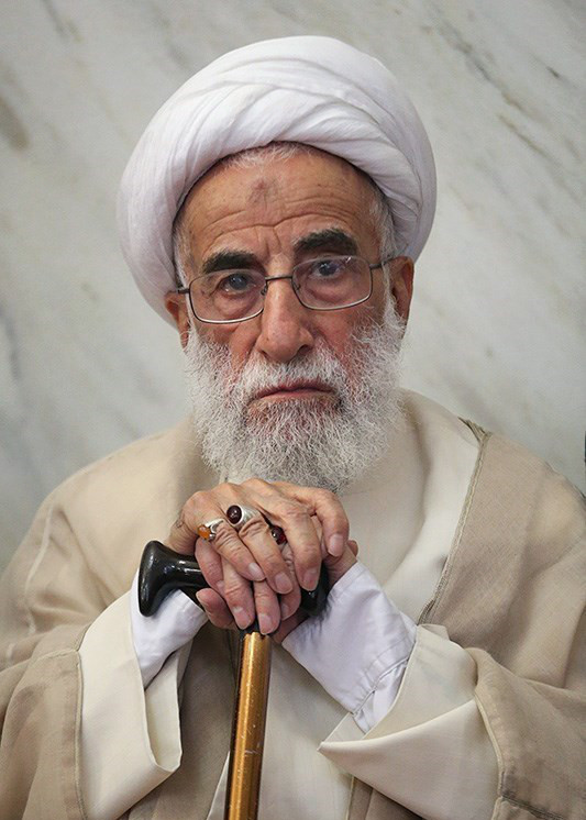 Jannati in the mourning ceremony of Abolghasem Khazali.